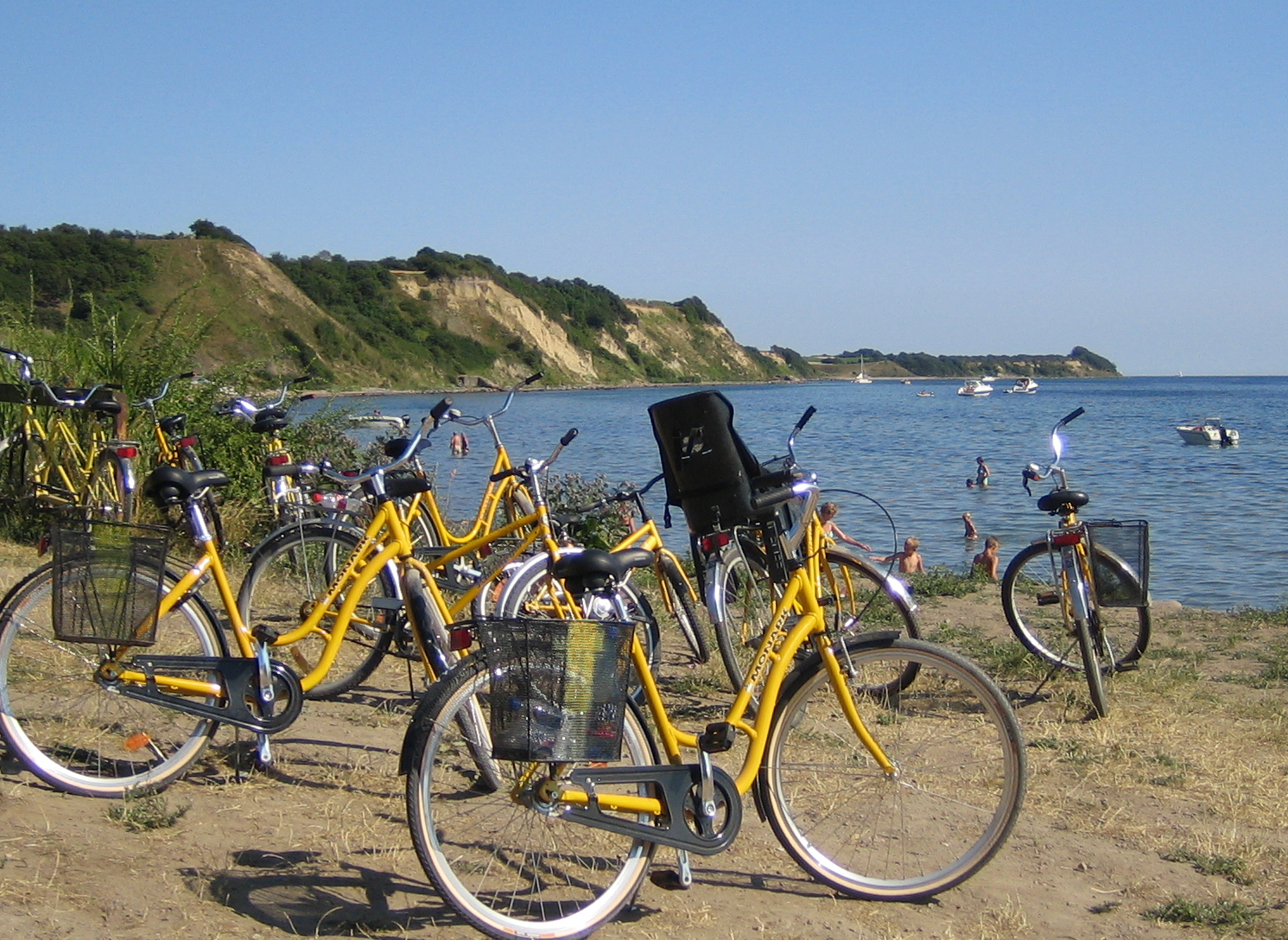 Steep coastline on the island of Ven in Öresund, Sweden.